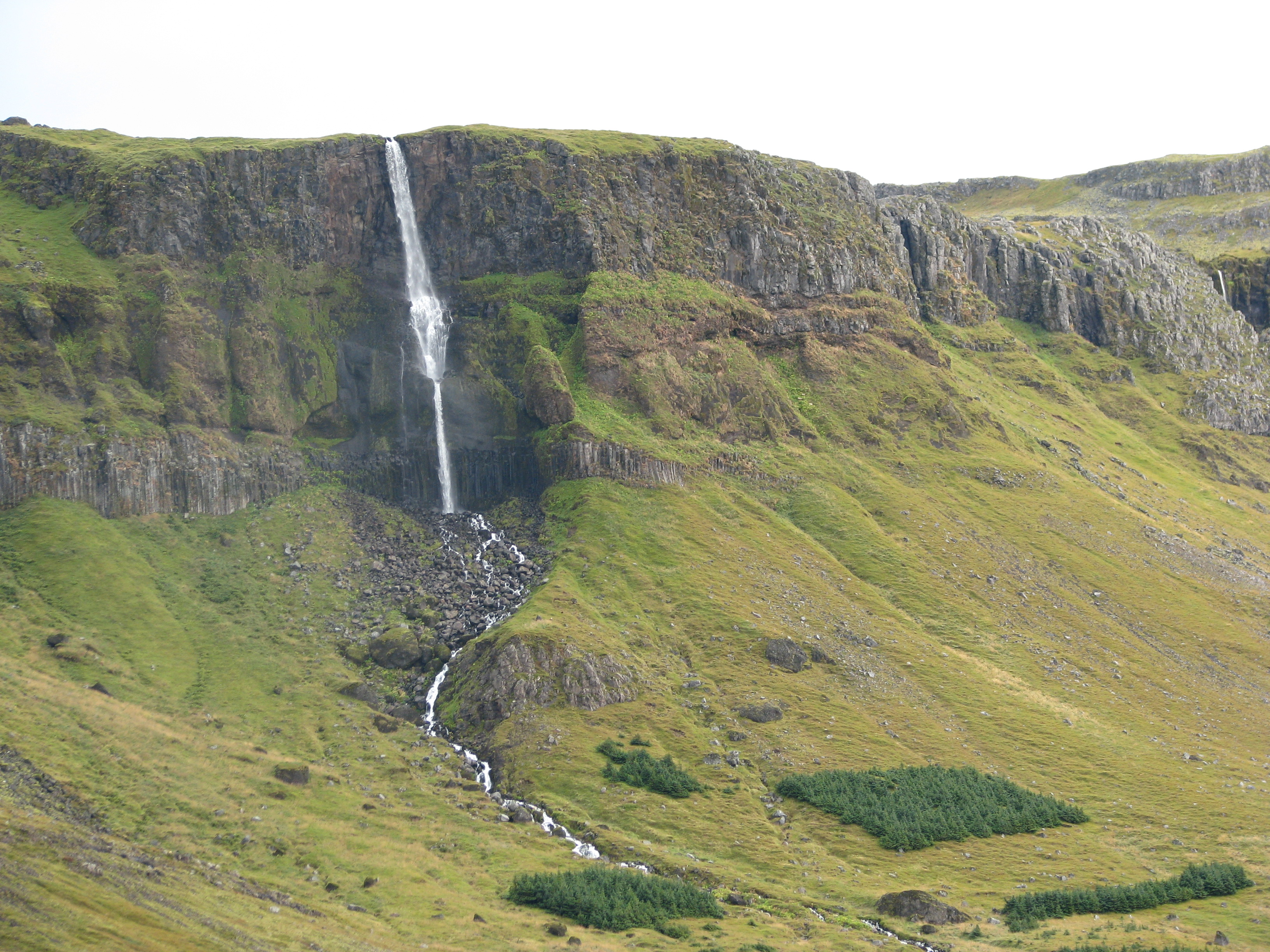 Bjarnafoss, a waterfall in Iceland.